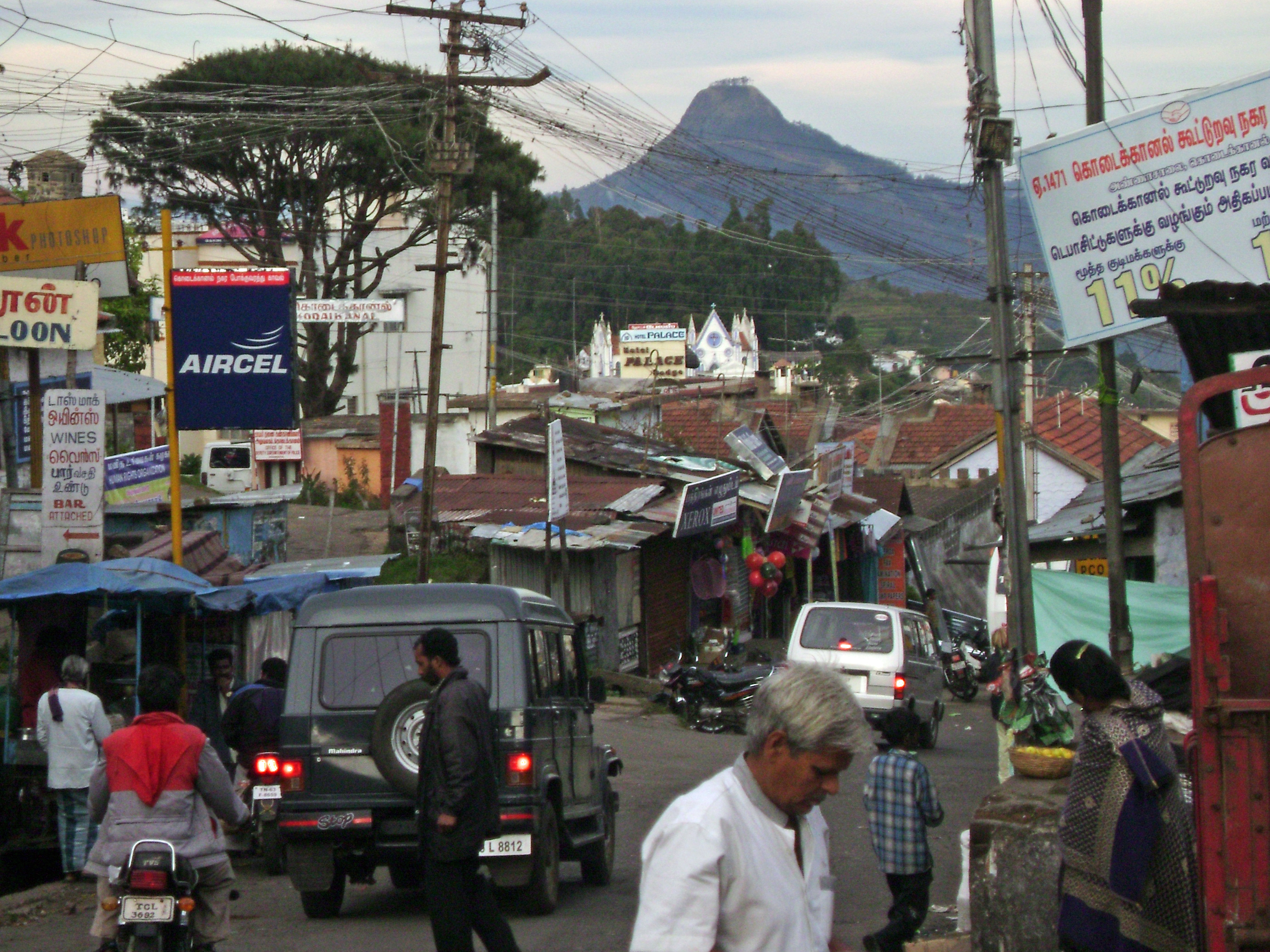 Anna Salai, the primary business street in Kodaikanal, showing Perumalmalai